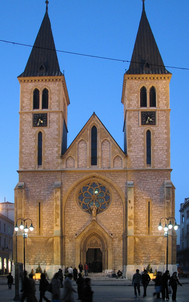 Jesuses Hearth Cathedral in Sarajevo, BiH.